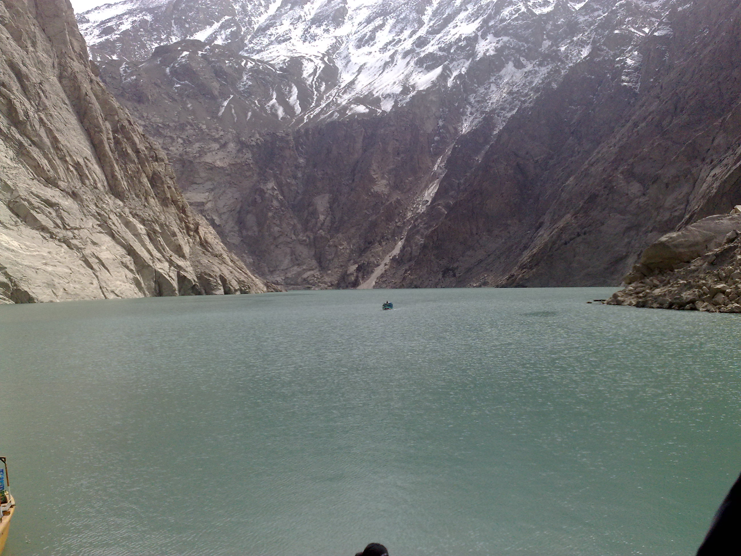 The water level has reached alarming levels of 365 feet owing to the rapid meltdown of glacier in the last two days. Chinese and Frontier Works Organisation [FWO] engineers began cutting the 196,000 cubic metre-high debris from the Attabad Dam in January 4 2010 after a massive landslide blocked the once fast flowing Hunza River at Attabad, creating a lake that submerged at least five villages as it expended. The land slide has completely blocked the Hunza River.